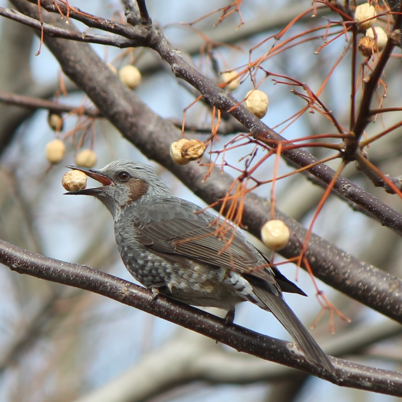 Hypsipetes amaurotis (Microscelis amaurotis) (Brown-eared Bulbul) eatin fruits of Melia azedarach, in Aichi prefecture, Japan.